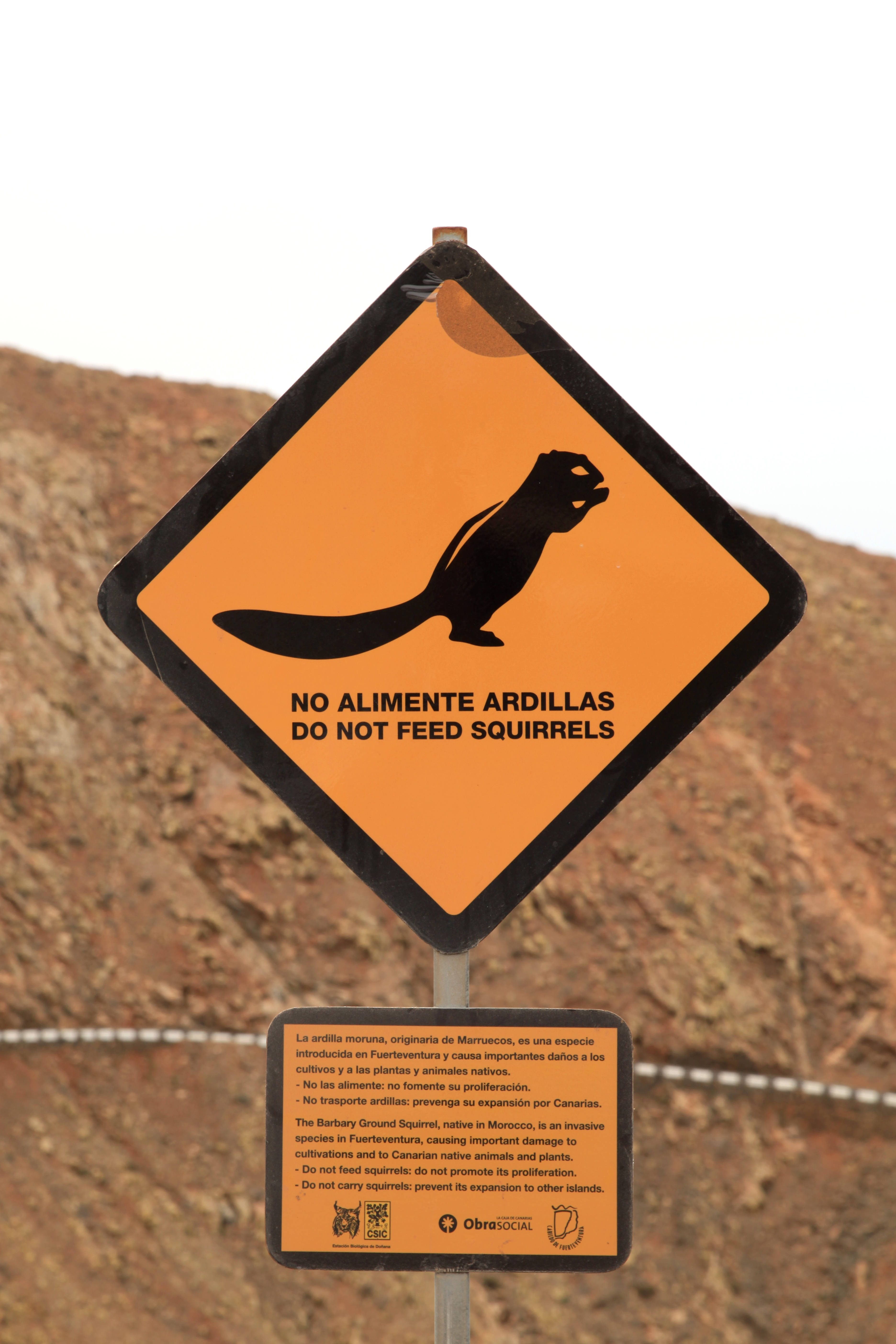 Viewpoint ‘Degollada de Los Granadillos’ at road FV-30 right on the border of Pájara / Betancuria, Fuerteventura, Canary Islands